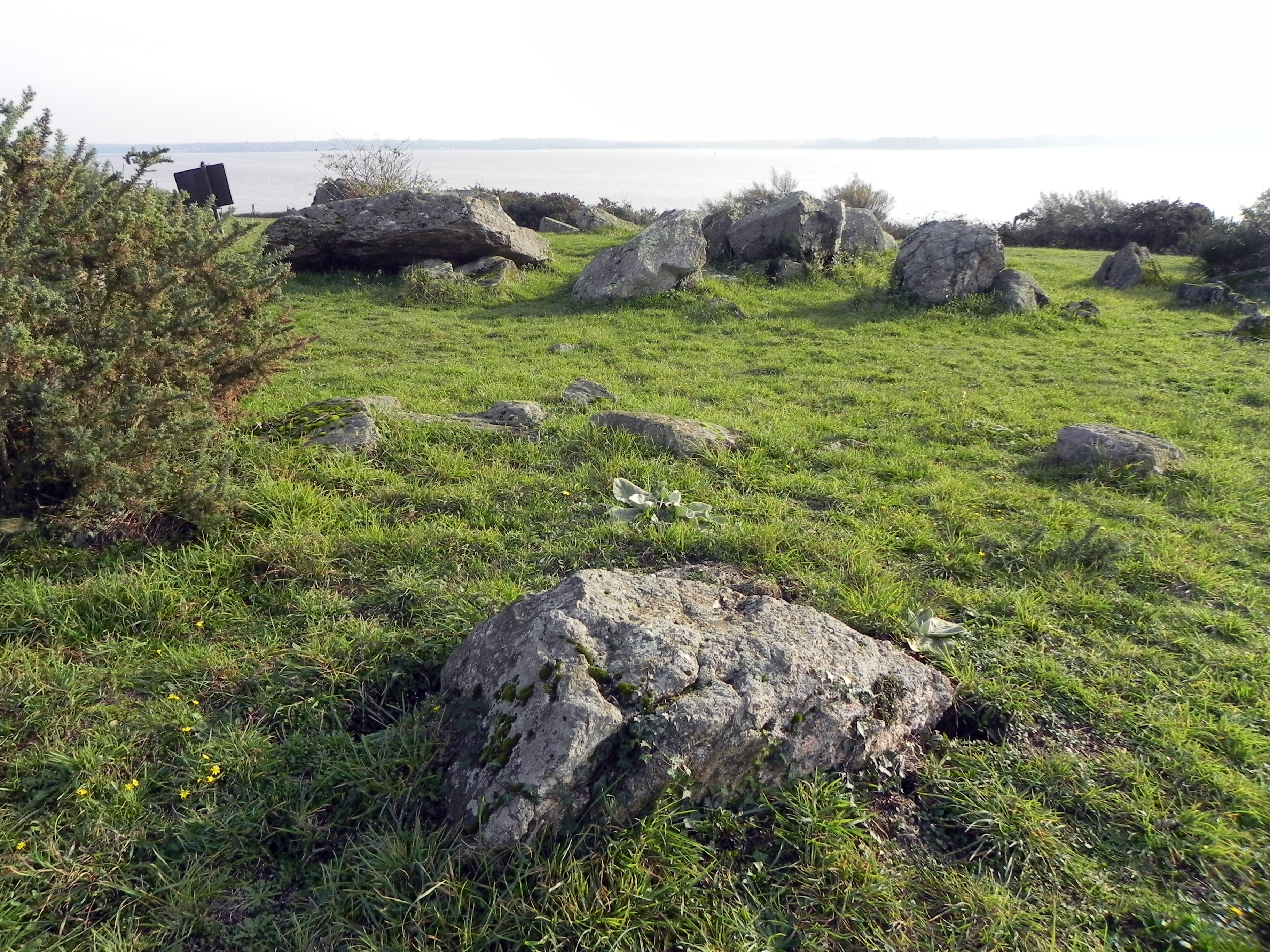 Cairn des Grays, Billiers, Morbihan, France.